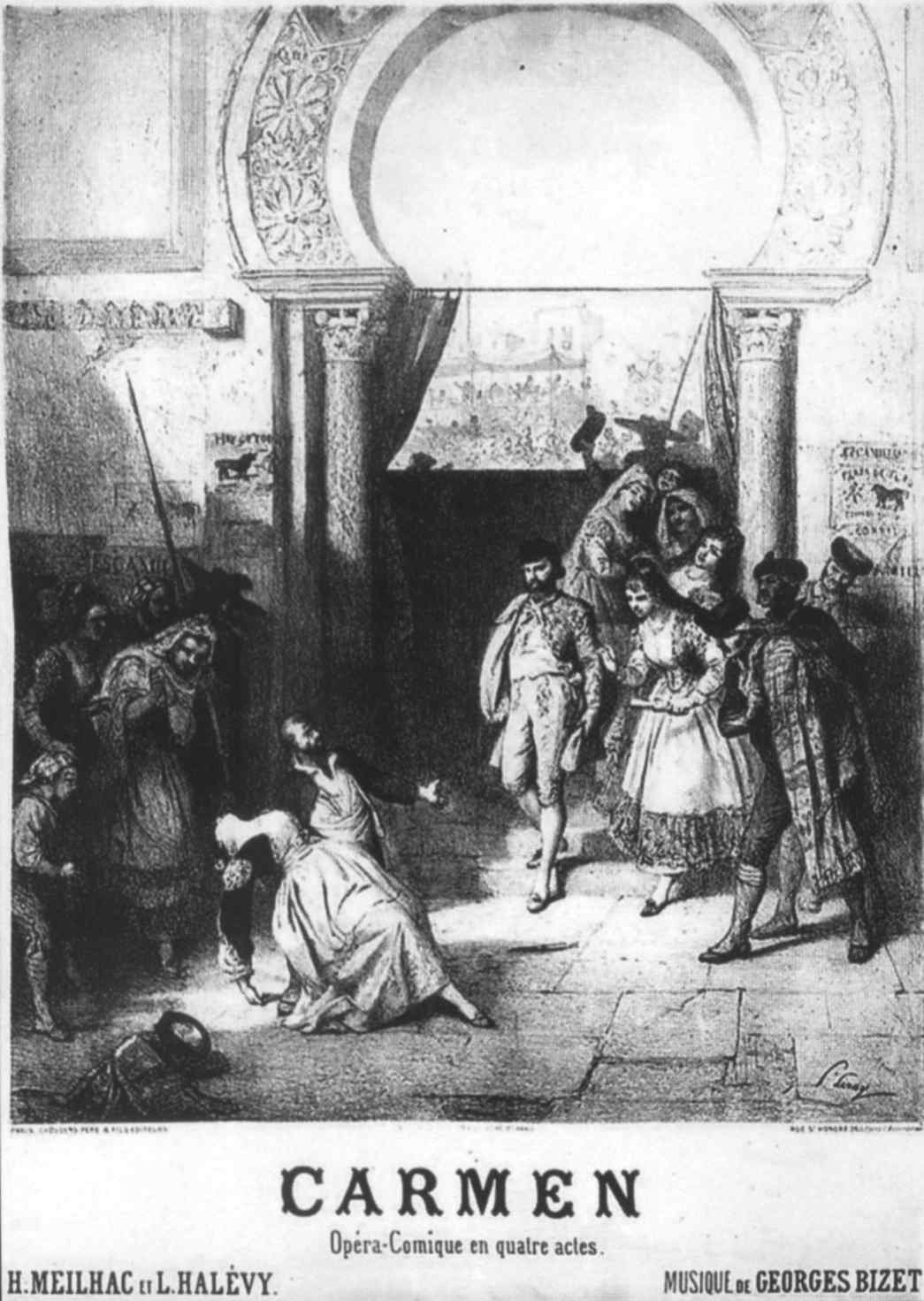 Poster for Carmen's premiere in 1875 by Prudent Louis Leray.